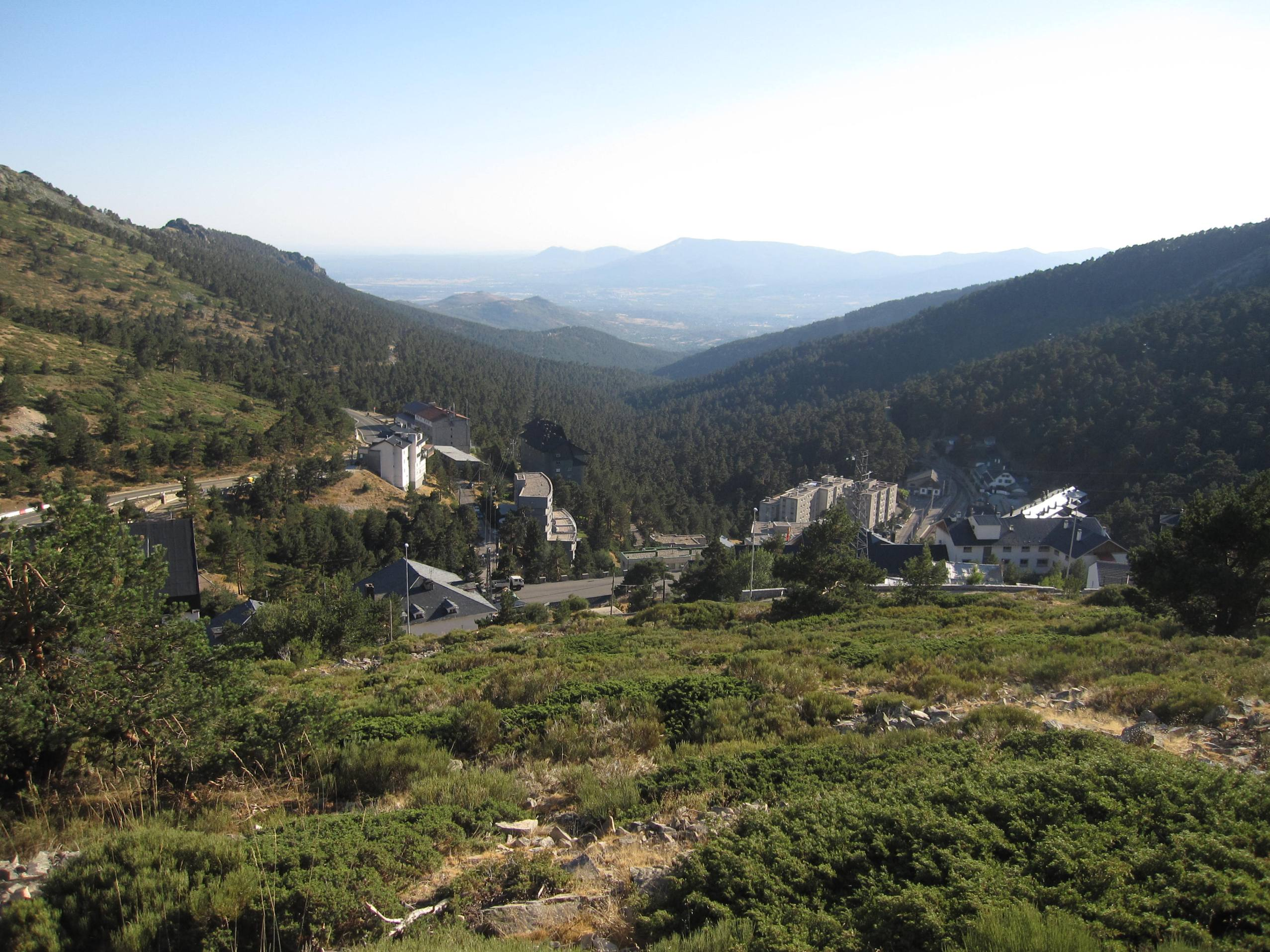 Navalmedio valley seen from a close area to Navacerrada mountain pass (Guadarrama mountain range, central Spain).